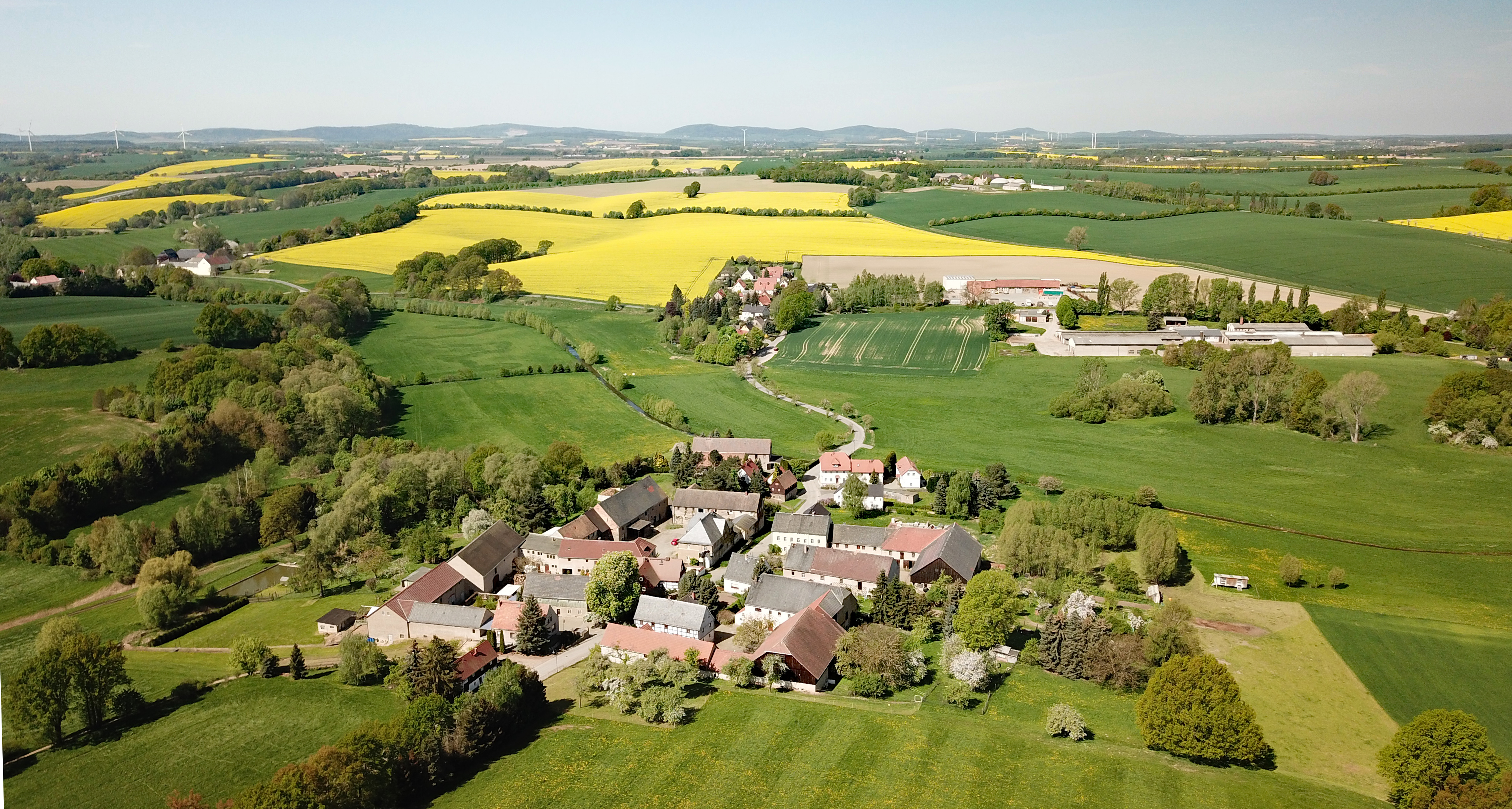 Muschelwitz (Göda, Saxony, Germany)